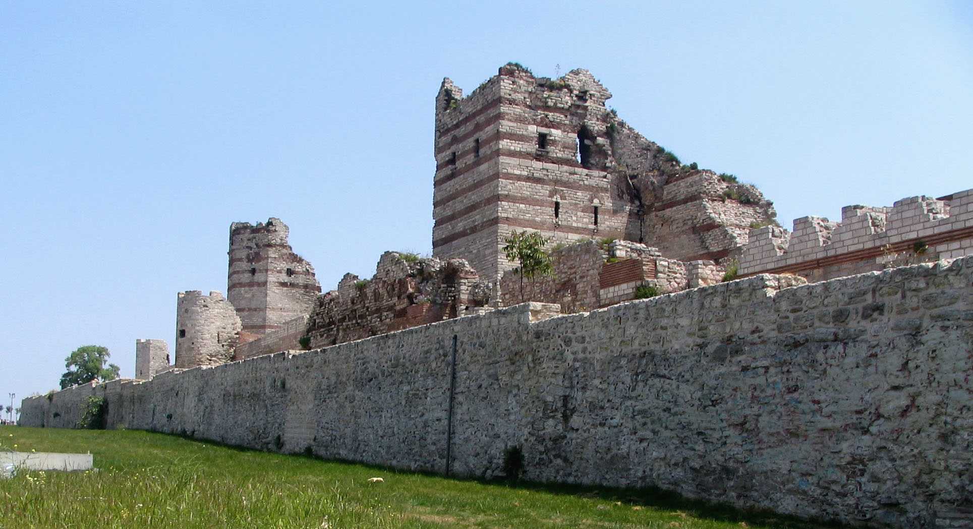 Walls of Constantinople in Topkapi, Istanbul, Turkey. May 2006. Photo by Winstonza talk